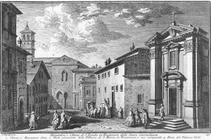 1) S. Egidio; 2) Tribuna (rear part) di S. Maria in Trastevere; 3) Palazzo Velli.